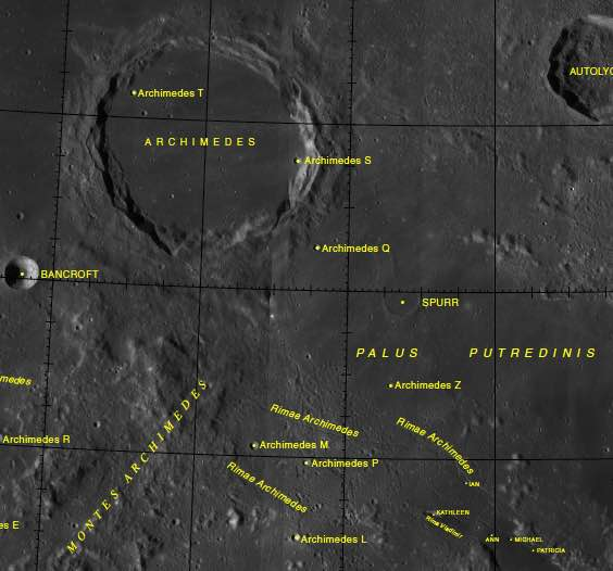 Part of the chart LAC-41.